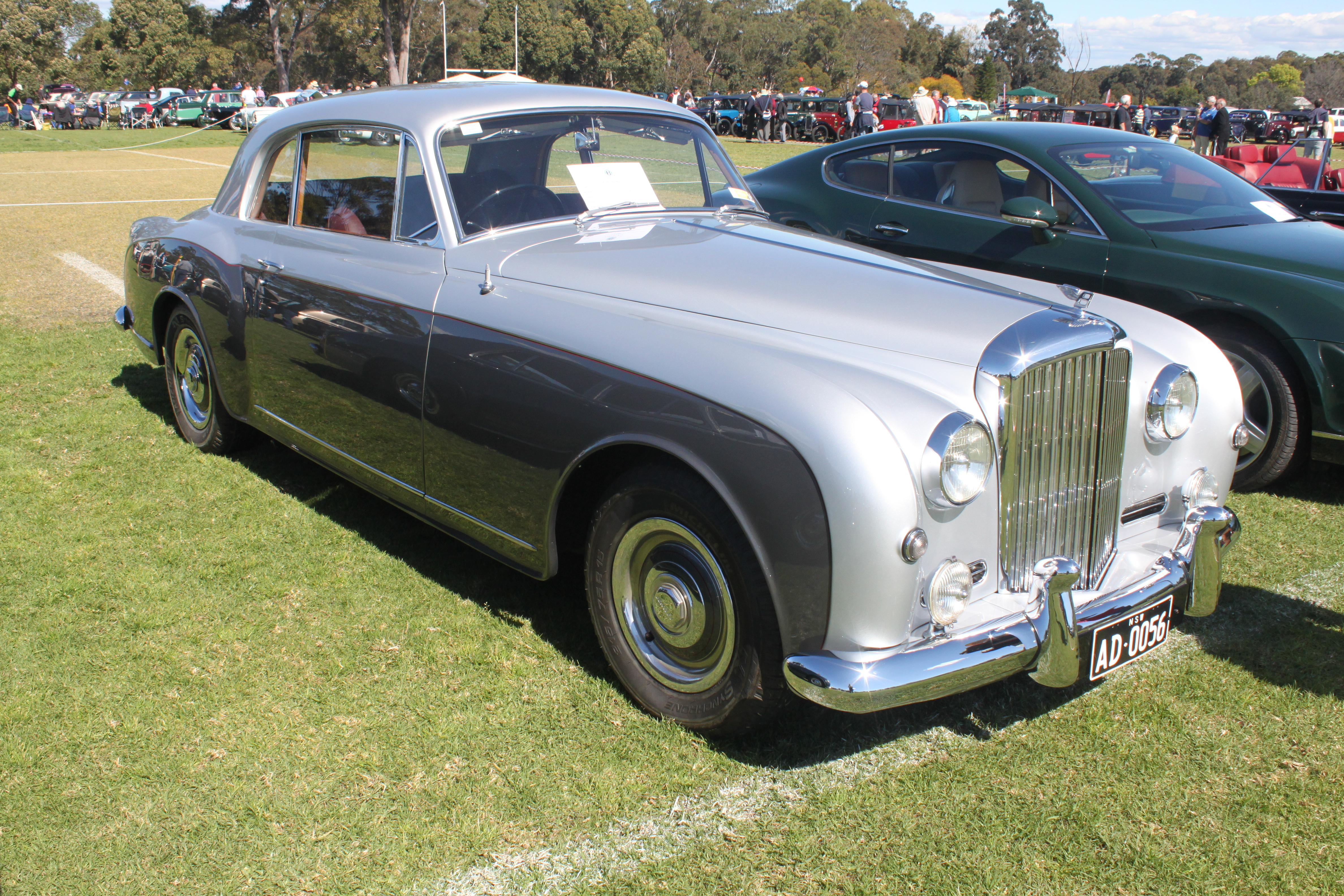 Bentley Continental S1 Park Ward